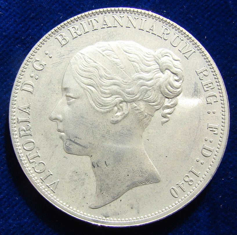 Victoria, 1837-1901 Young Head by William Wyon edited as a retro-pattern by the British medallist Donald R Golder for the Spink Patina Collection. Zink, D.= 38 mm.